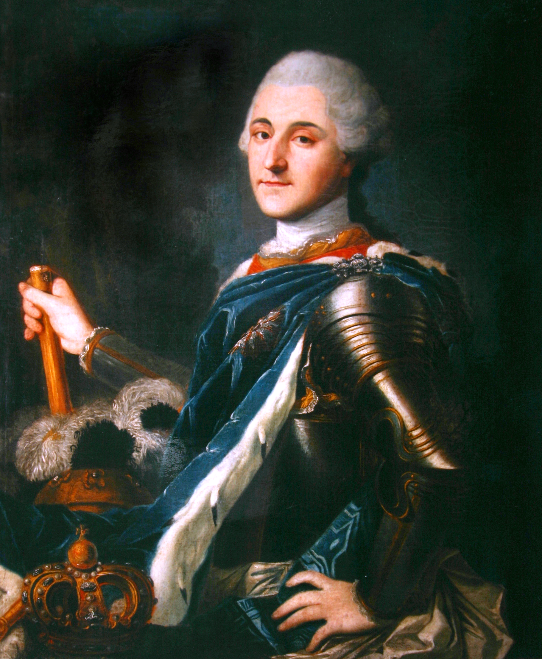 Stanisław August Poniatowski-coronation portrait